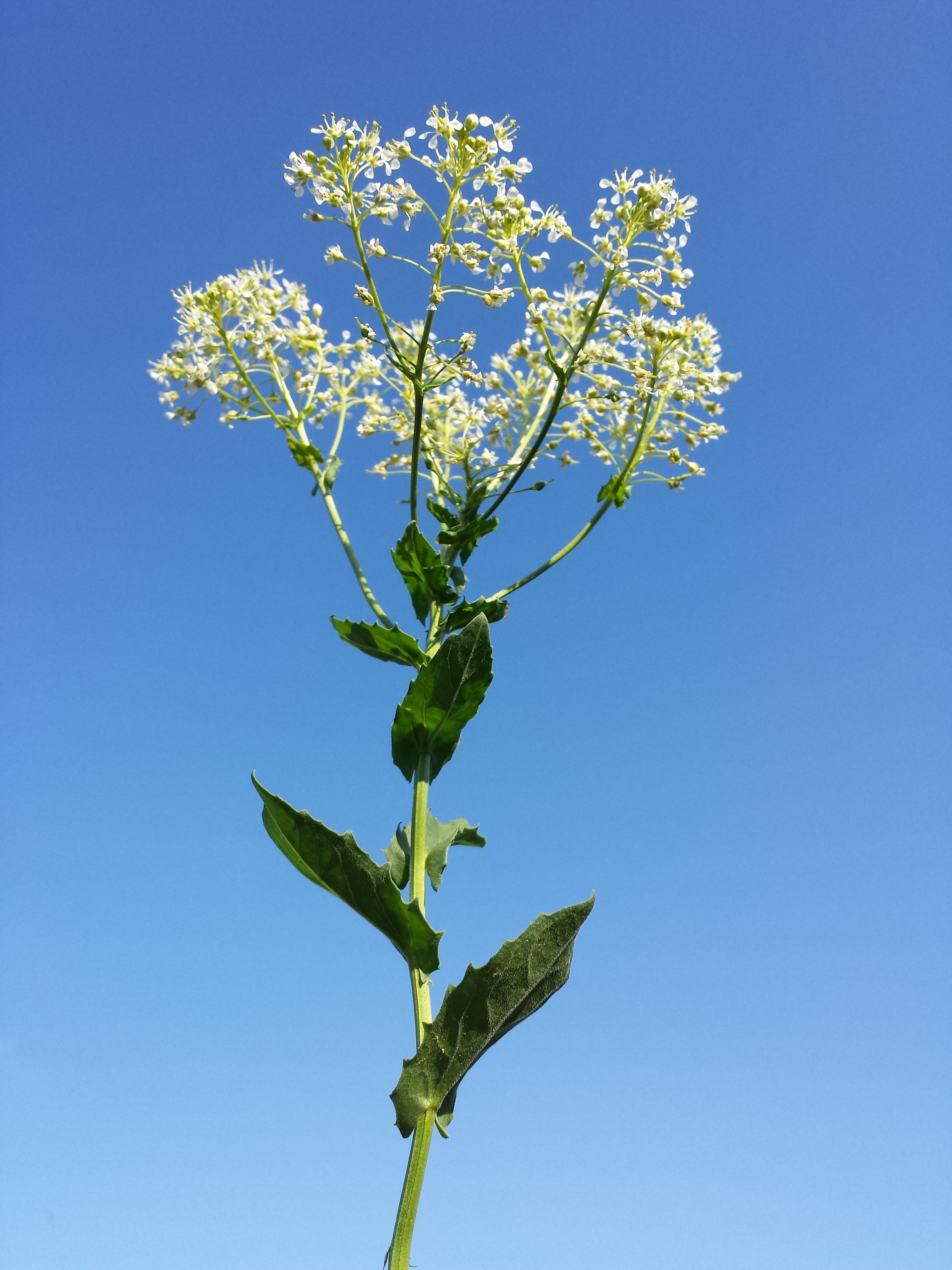 Habitus Taxonym: Lepidium draba (subsp. draba) ss Fischer et al. EfÖLS 2008 ISBN 978-3-85474-187-9 Location: Neue Donau, Vienna-Floridsdorf - ca. 160 m a.s.l. Habitat: ruderal area under a bridge